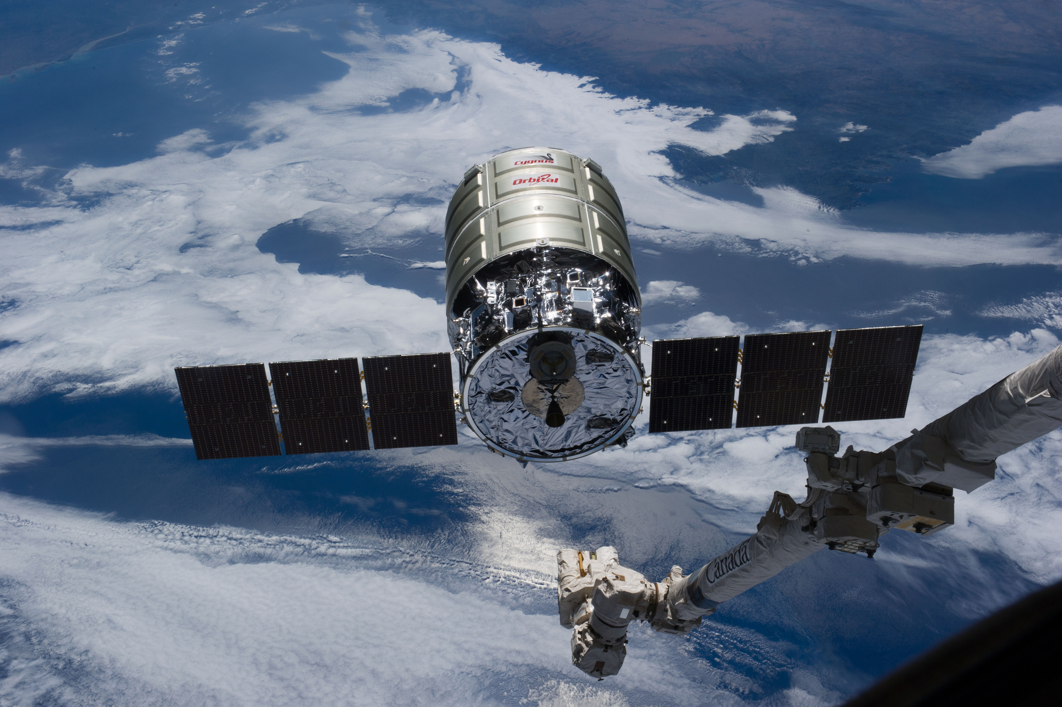 ISS040-E-069162 (16 July 2014) --- Operated by an Expedition 40 crew member inside the station's Cupola, the Canadarm2 moves toward the Orbital Sciences' Cygnus cargo craft as it approaches the International Space Station. The two spacecraft converged at 6:36 a.m. (EDT) on July 16, 2014. A blue and white part of Earth provides the backdrop for the scene.